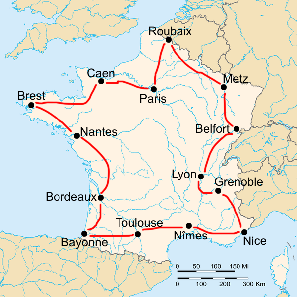 Tour de France route of 1907, 1908 and 1909 (the stages were nearly identical)